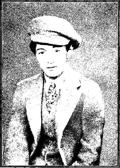 Teppei Kataoka, Japanese writer.